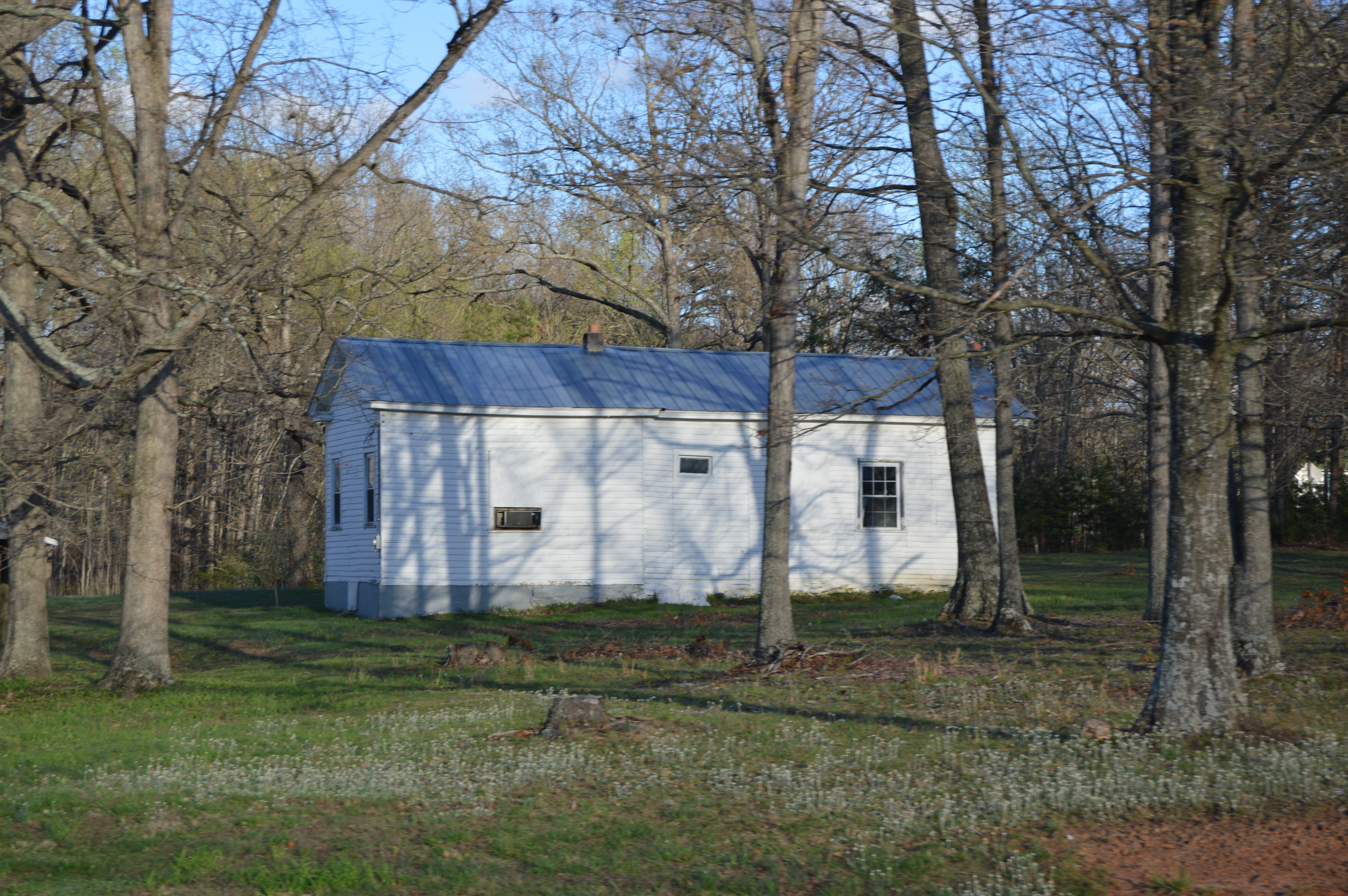 Western side of the former Hill Grove School, located at 2580 Wards Road southeast of Altavista in Pittsylvania County, Virginia, United States. Built in 1915, it is listed on the National Register of Historic Places.